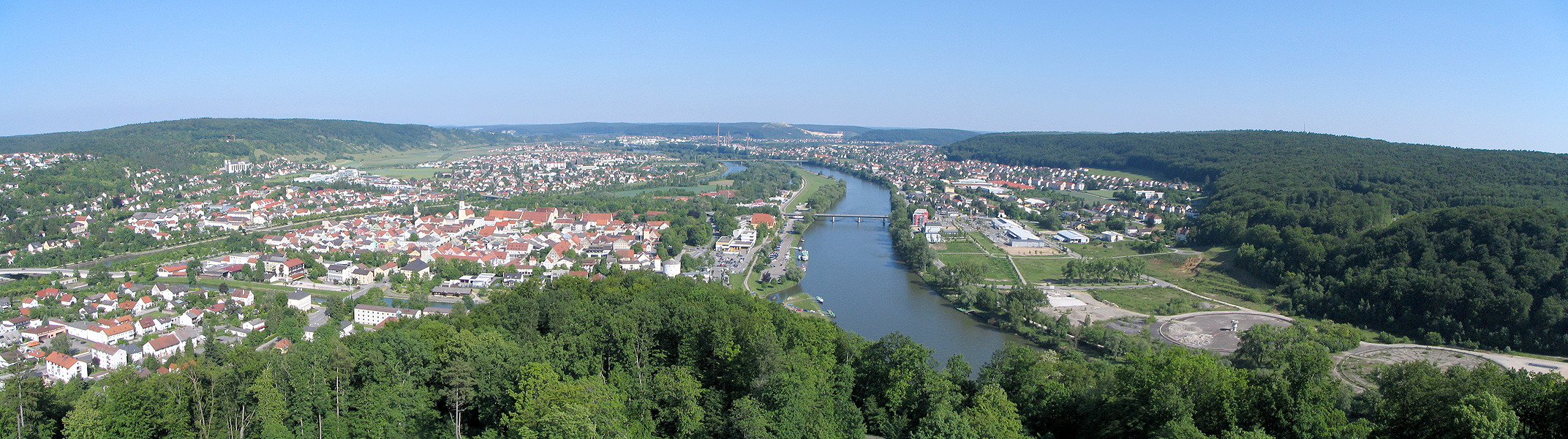 Panoramic Picture of Kelheim taken from Befreiungshalle, Bavaria, Germany.